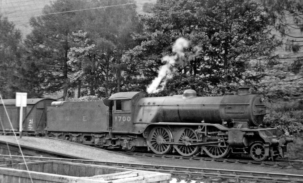 A Down freight on the West Highland Line at Ardlui. View westward at Ardlui Station on the ex-North British Glasgow - Helensburgh - Fort William line. Designed by Sir Nigel Gresley as a lighter version of his very successful V2 2-6-2, only two engines of his V4, No. 1700 'Bantom Cock' (seen here) and No. 1701, were built just before he died in 1941 and his successor (Edward Thompson) did not perpetuate the design.